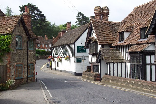 Ightham village, Kent. Ightham nestles against the foot of the Greensand Hills a short distance south of Wrotham.